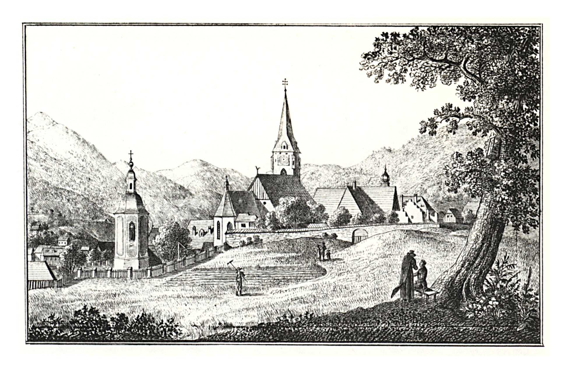 J. F. Kaiser - lithographirte Ansichten der Steyermärkischen Städte, Märkte und Schlösser Joseph Franz Kaiser (1786–1859) Alternative names J. F. KaiserDescriptionAustrian printer and editorDate of birth/death 11 March 1786 19 September 1859Location of birth/death Graz (Styria) GrazAuthority control : Q1499963 VIAF: 30629353 ISNI: 0000 0000 3083 0153 LCCN: n87141671 GND: 129880159 NLP: A24960305 WorldCat creator QS:P170,Q1499963 Graz, 1825 Scanprojekt Community Projektbudget 2012 This scan or this PDF-file was created within the GLAM-project Bookscanning, supported by Wikimedia Germany and Wikimedia Austria as a part of the community-project to capture books, documents and pictures which are not eligible to copyright or for which the copyright has expired. This document describes or depicts an object which is located in Austria today. Send requests for uncompressed scans to Hubertl. This work is in the public domain in its country of origin and other countries and areas where the copyright term is the author's life plus 100 years or less. You must also include a United States public domain tag to indicate why this work is in the public domain in the United States. This file has been identified as being free of known restrictions under copyright law, including all related and neighboring rights.